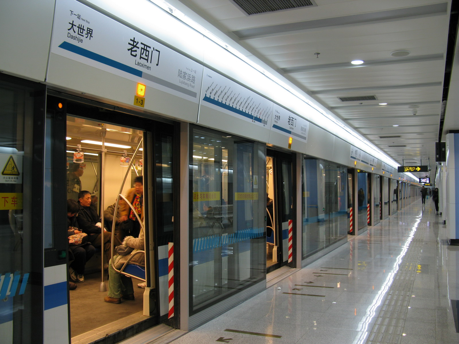 老西门站 8号线月台 Line 8 Platform of Laoximen Station